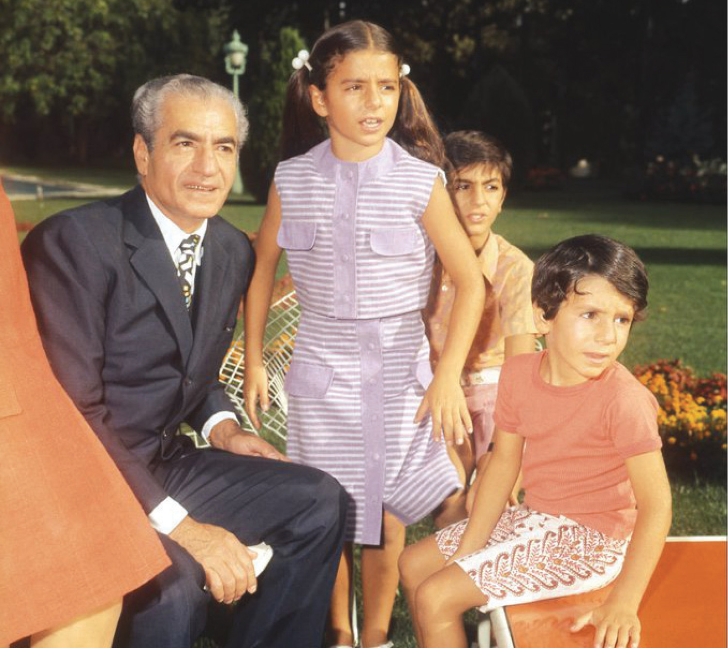 Shah Mohammad Reza Pahlavi and his children Farahnaz, Reza and Alireza at Niavaran Palace.